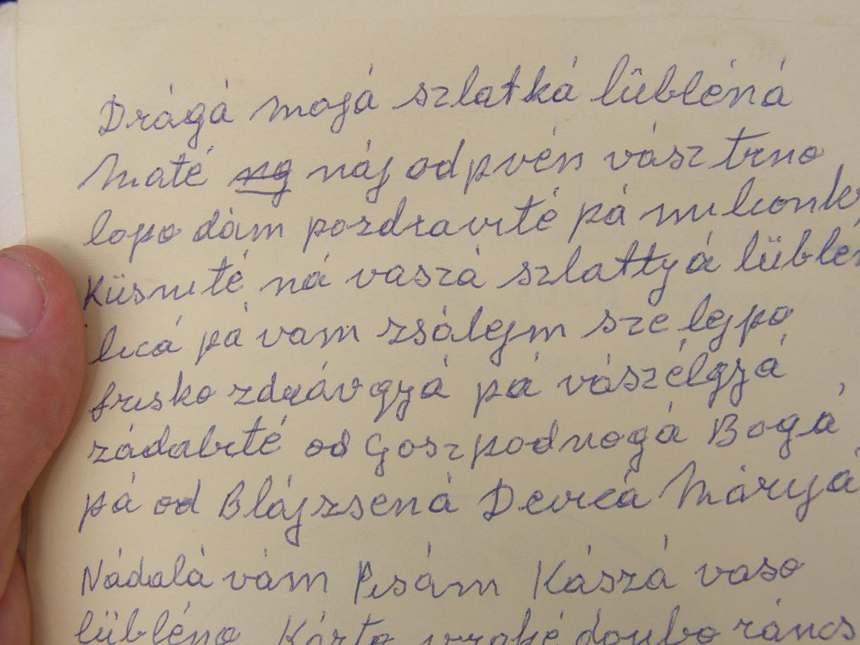 A letter in prekmurian language (in the dialect of the Vendvidék). A soldier was wrote to his parents in Szakonyfalu.